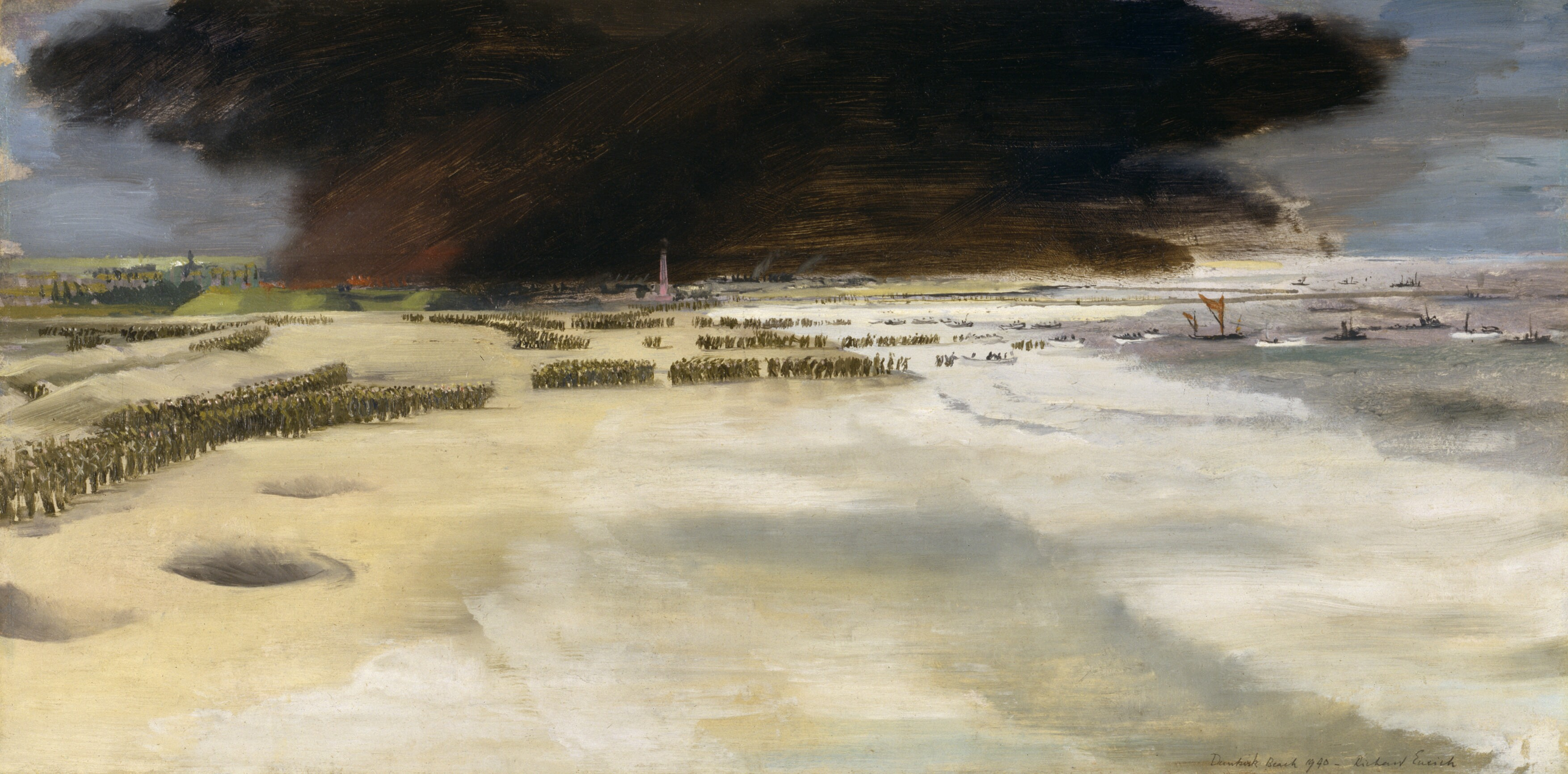 Dunkirk Beaches, 1940 image: View across the beach at Dunkirk with lines of soldiers preparing for evacuation and walking through the surf to small boats waiting offshore. A black pall of smoke hangs in the sky and bomb craters pock the sand to the left of the composition